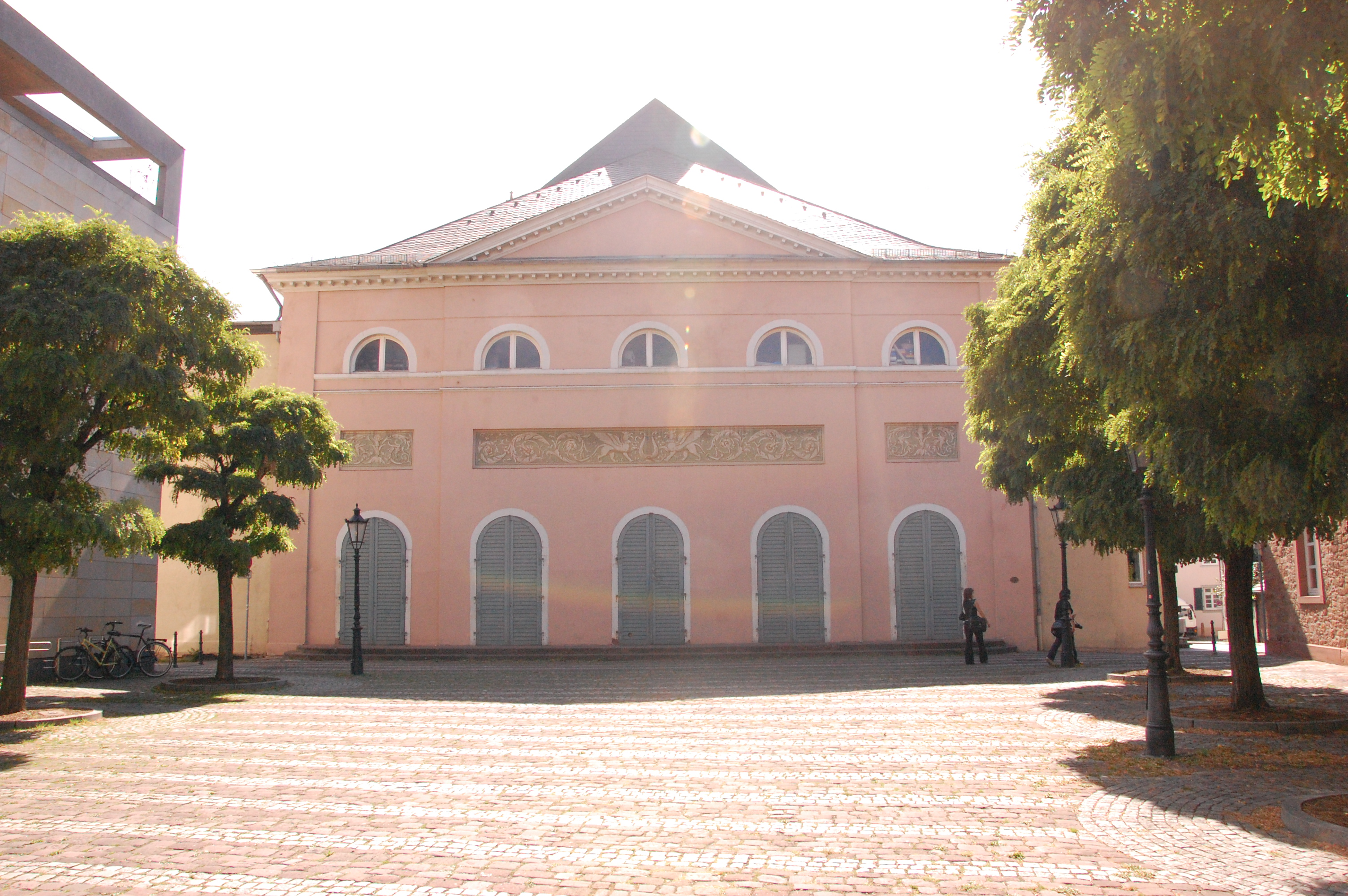 Aschaffenburg Theater from Karlsplatz